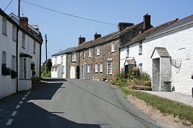 St Minver. In as much as the village of St Minver can be said to have a main road, this is it!